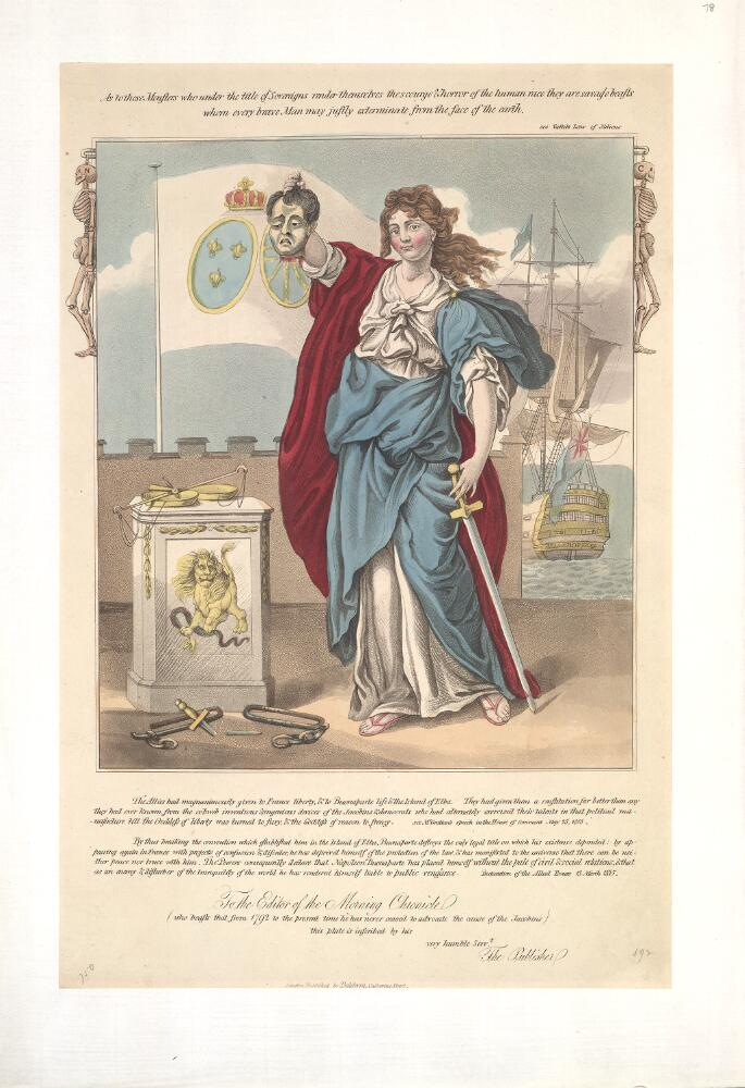 Caricature of Napoleon I. (British political cartoon); Justice holds up the severed head of Napoleon, in front of a flag bearing the Bourbon emblems and a crown. In the background the ship Bellerophon can be seen taking Napoleon to Elba. A comment on Napoleon's duplicity in escaping from exile and returning to battle at Waterloo.; Bee stamp